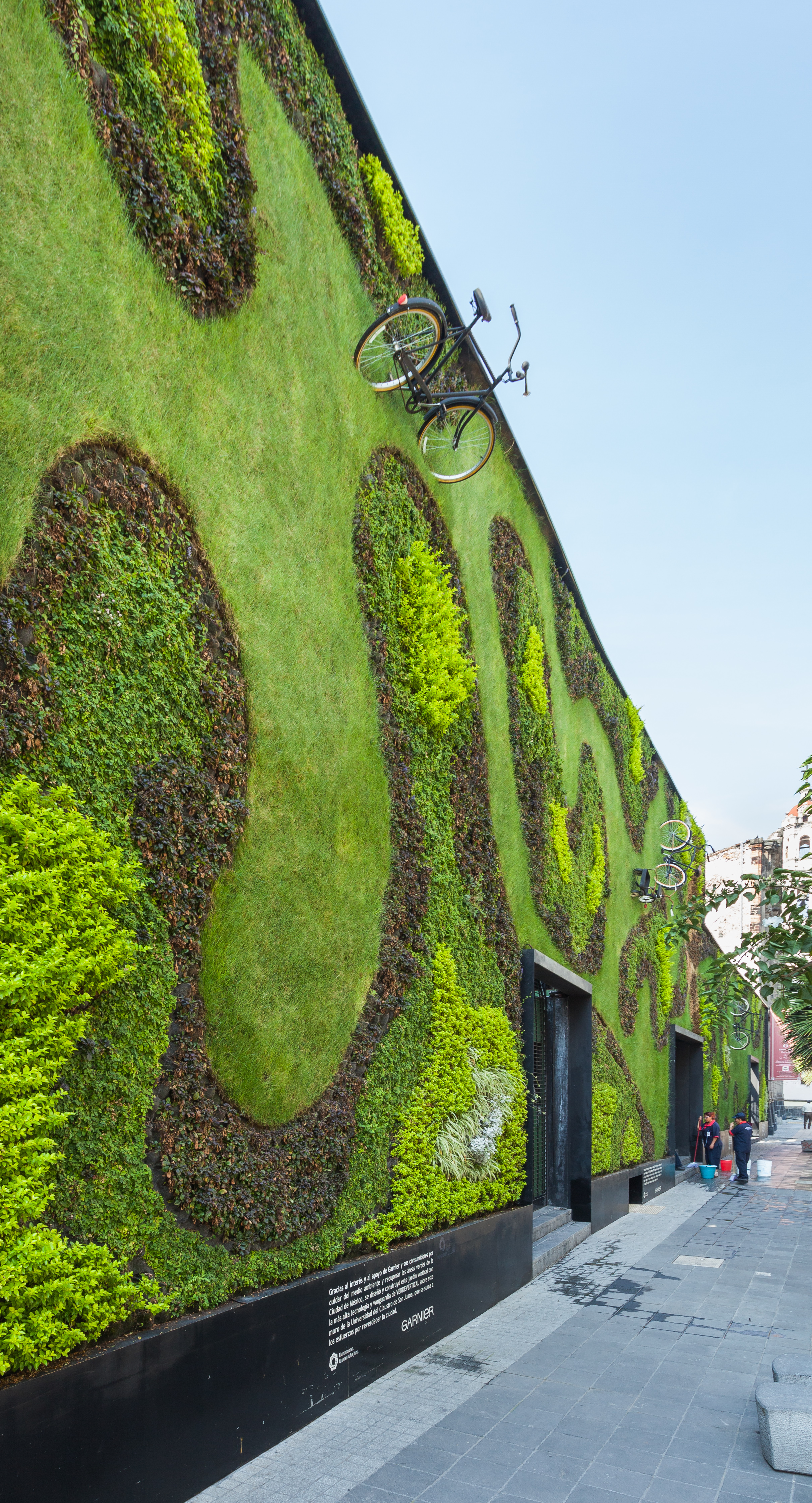 Wall garden at the University of Claustro de Sor Juana, Mexico City, Mexico